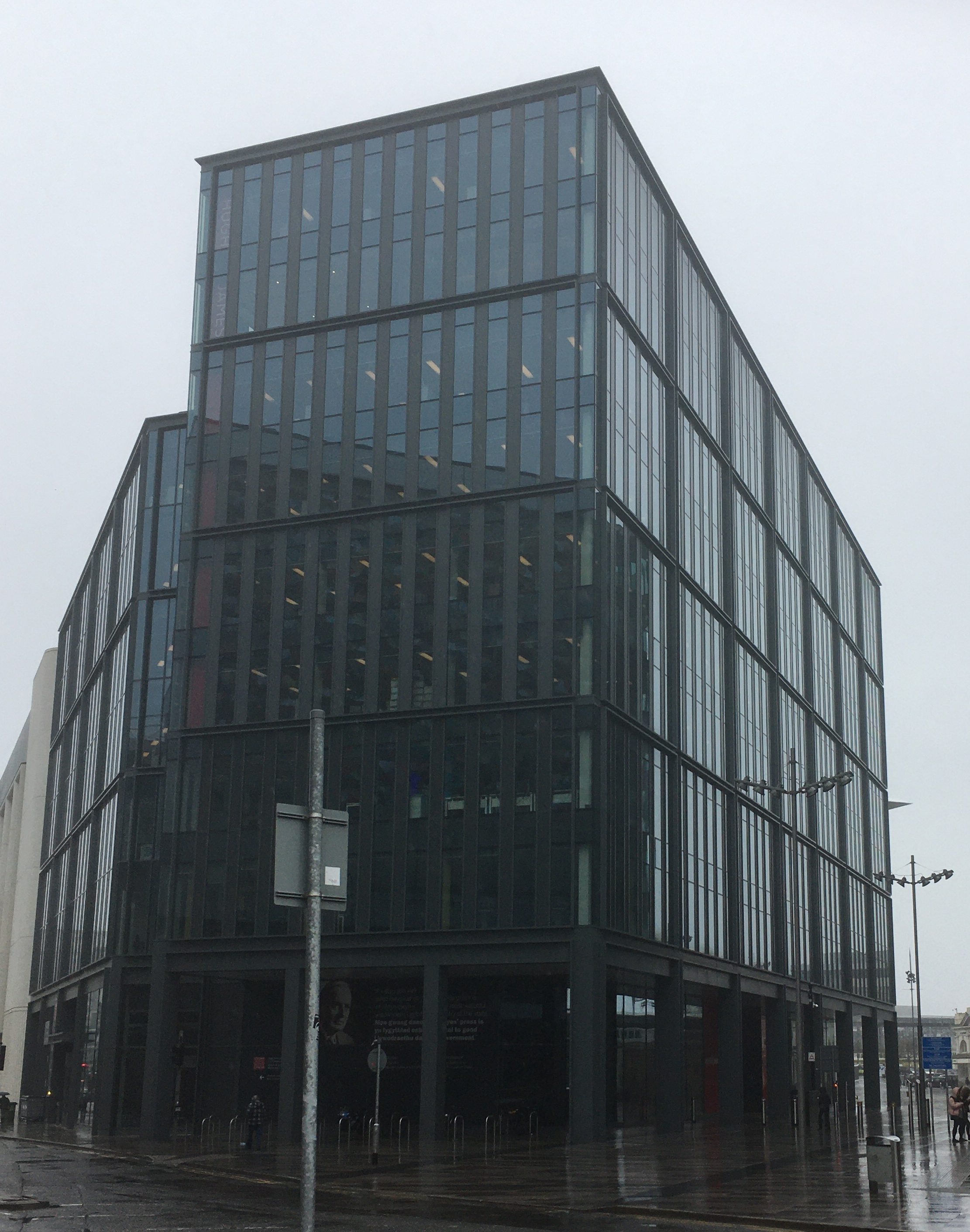 2 Central Square, Cardiff, Wales